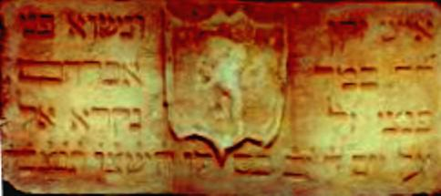 Jewish inscription of the former Synagogue of Messina (Italy) (destroyed by the earthquake in 1908).